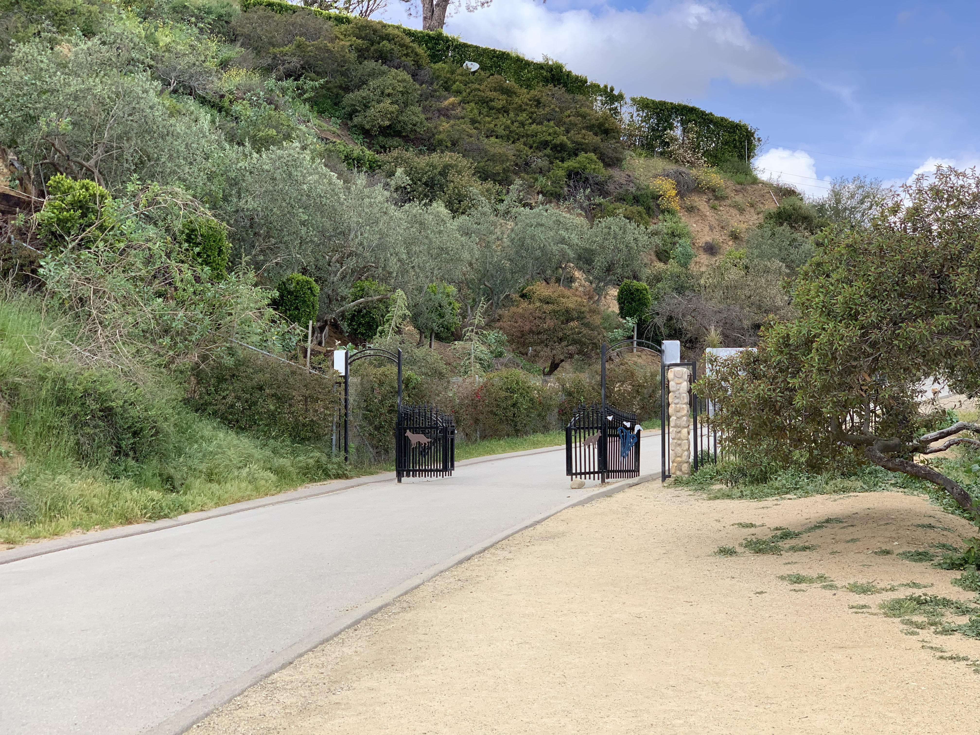 Example of improvements made in 2016.